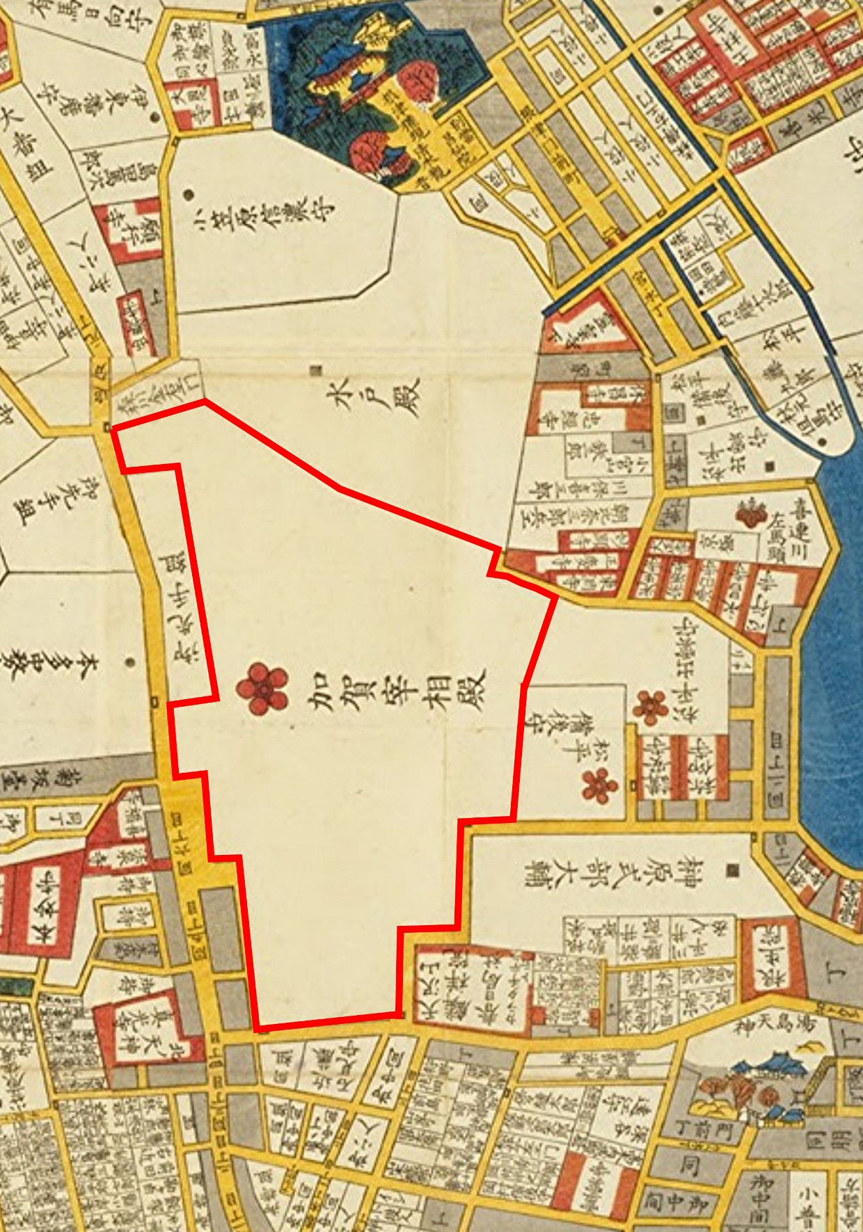 residene of Kaga-an at Edo